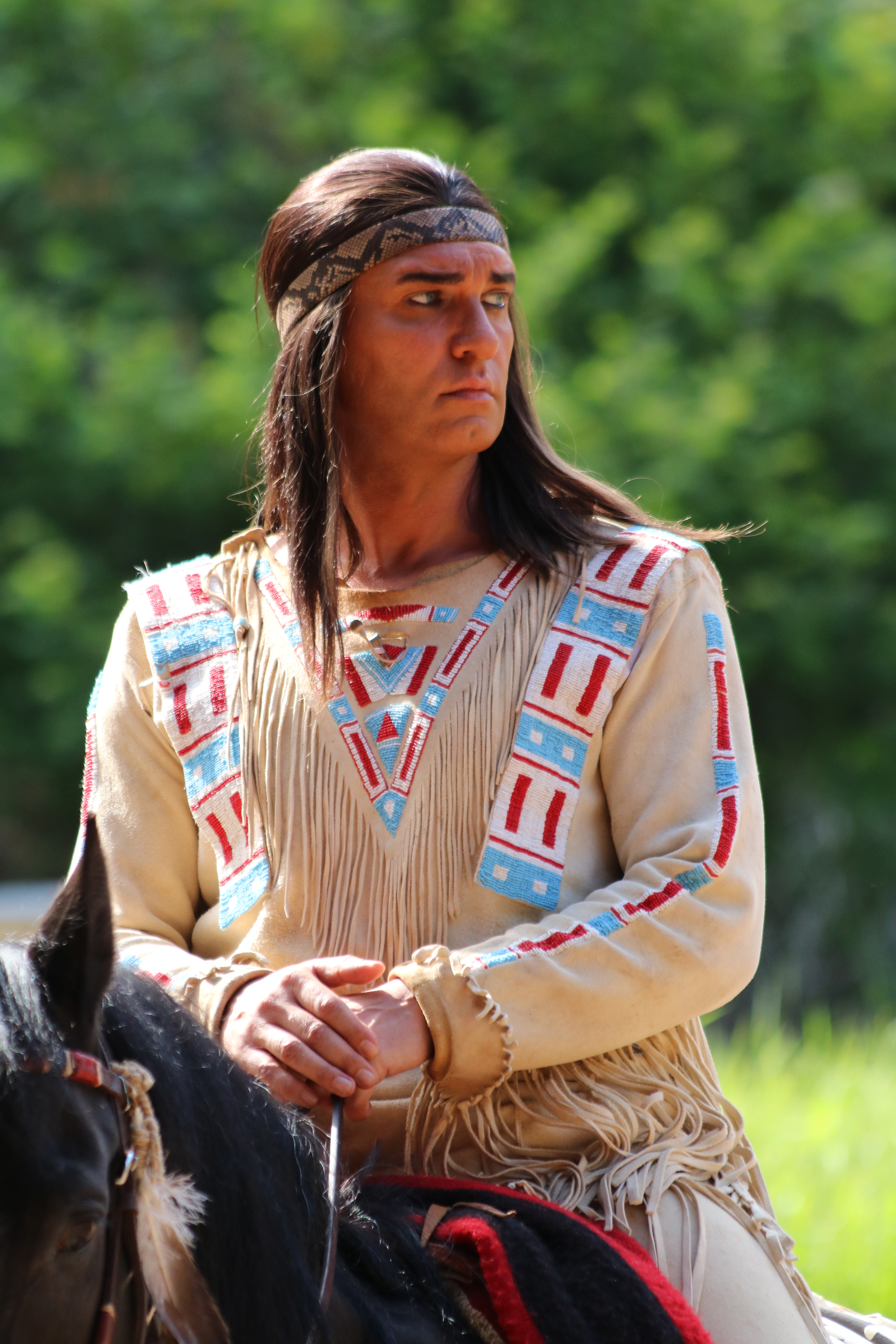 Jean-Marc Birkholz as Winnetou (Elspe Festival 2019)